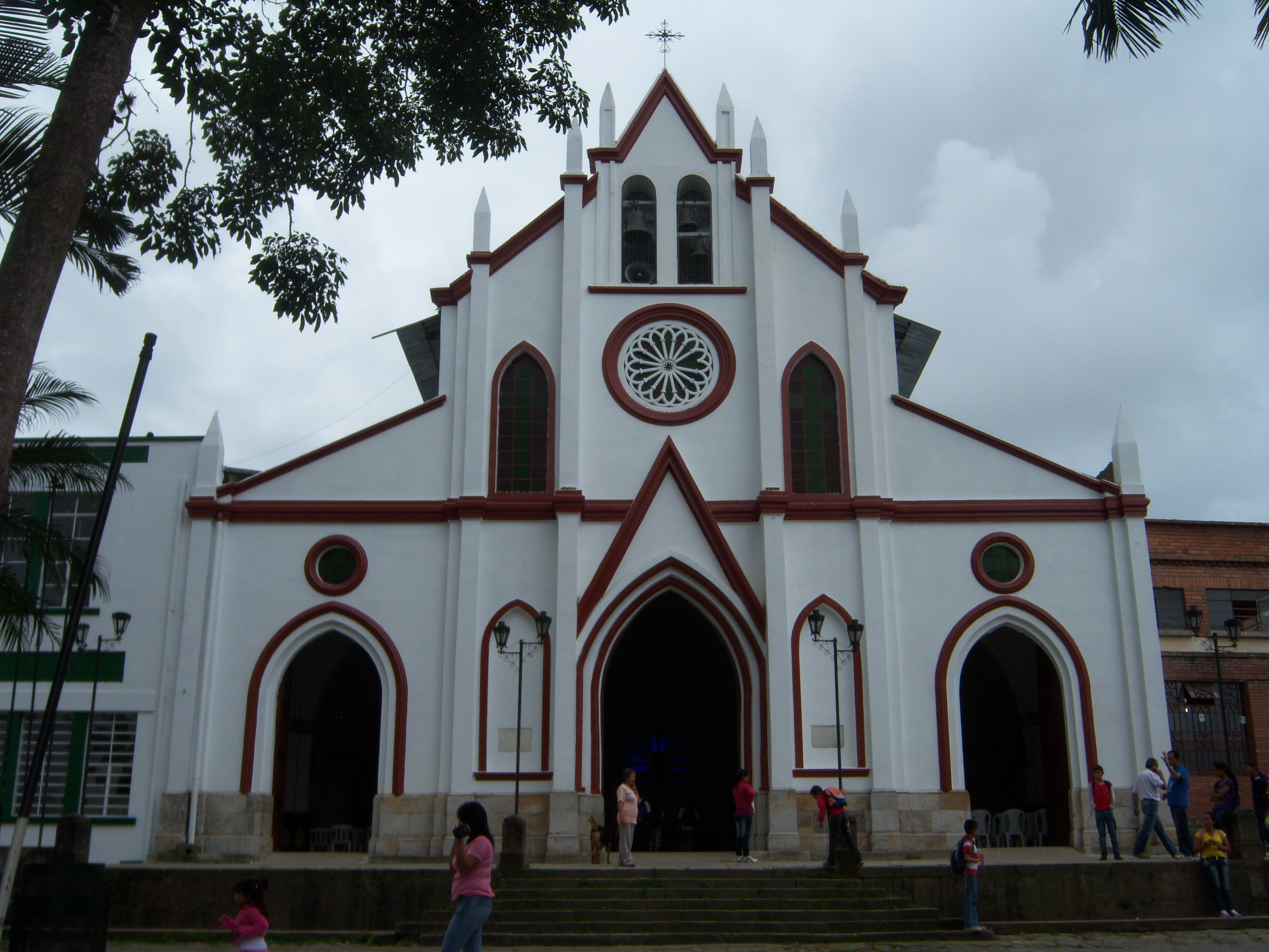 This the Catholic church of Cachipay.